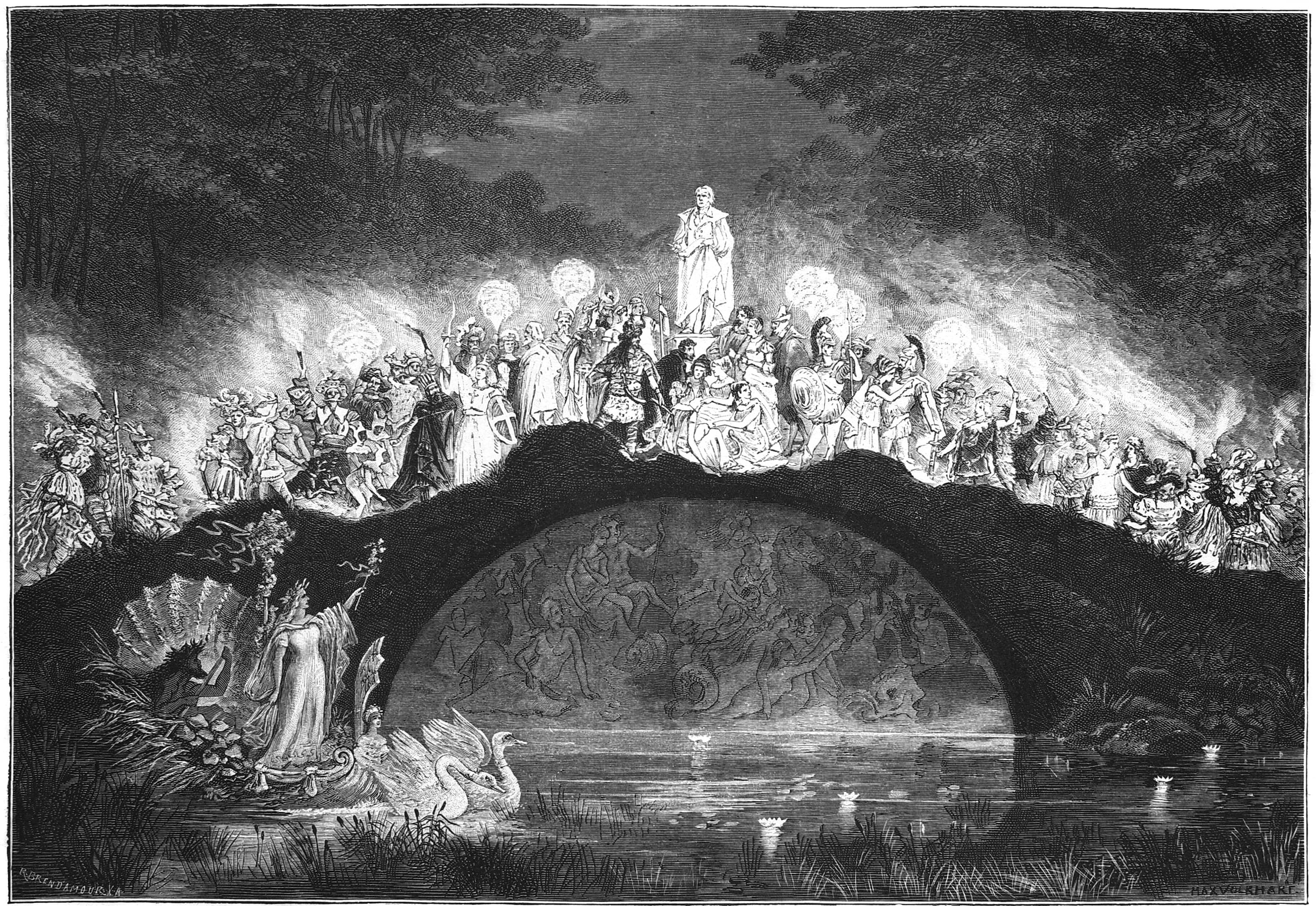 caption: "Gartenfest des „Malkasten“ in Düsseldorf zur Cornelius-Feier am 24. Juni 1879.Nach der Natur aufgenommen von Max Volkhart."